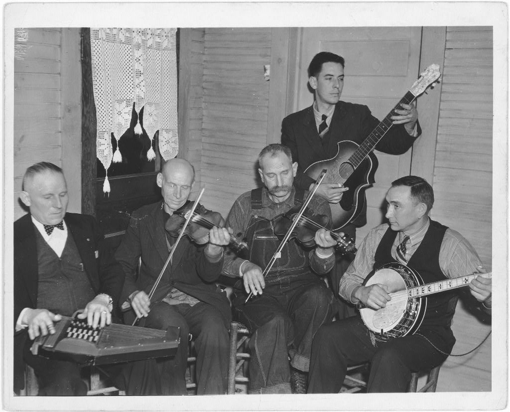 The Bog Trotters Band, photographed in Galax, Virginia in 1937. Band members include Doc Davis on autoharp, Alex Dunford (fiddle), Crockett Ward (fiddle), Wade Ward (banjo), and Fields Ward (guitar).